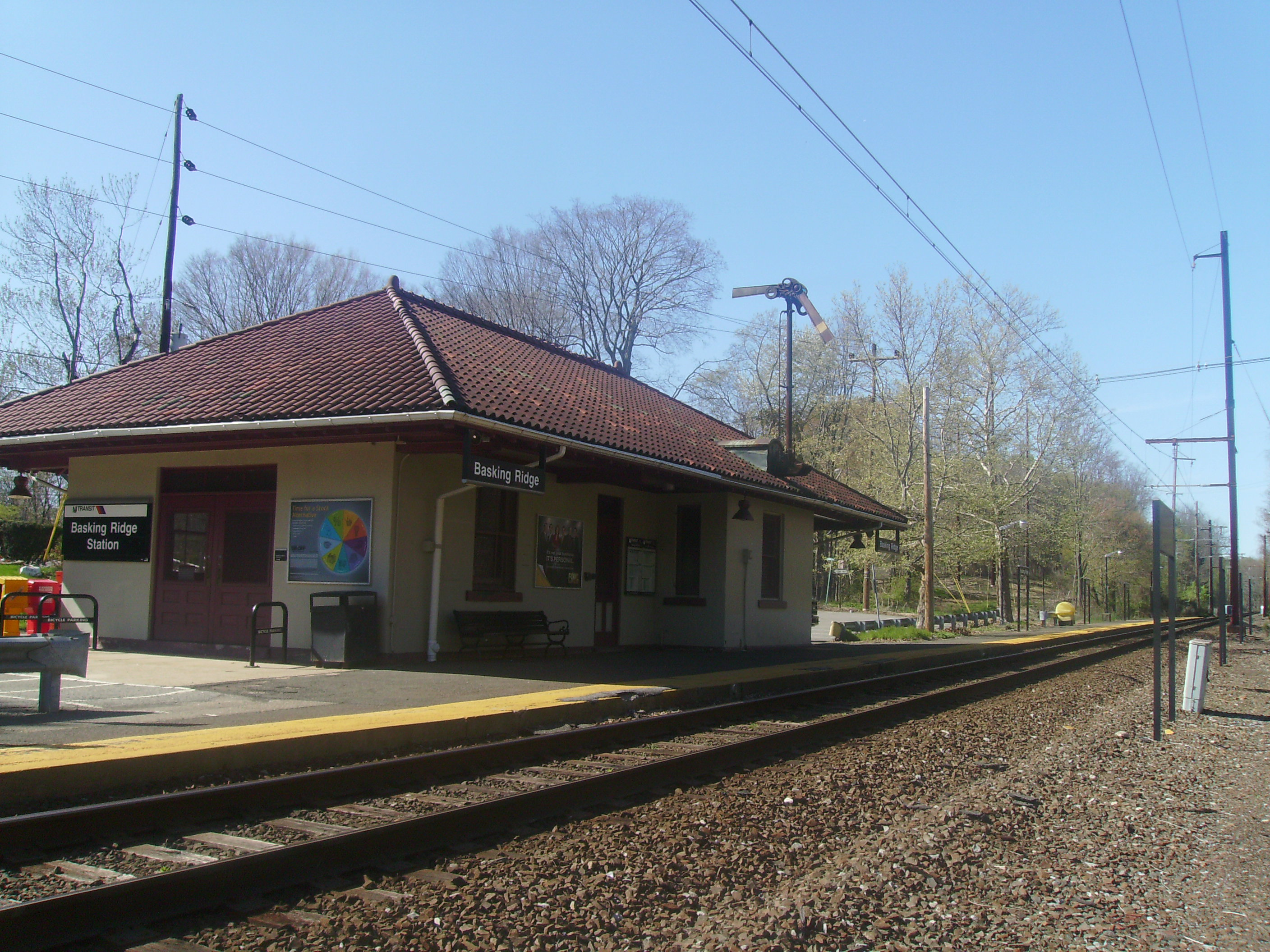 Basking Ridge station facing northbound along New Jersey Transit's Gladstone Branch in Basking Ridge, New Jersey. A rusted semaphore signal rests atop the building.